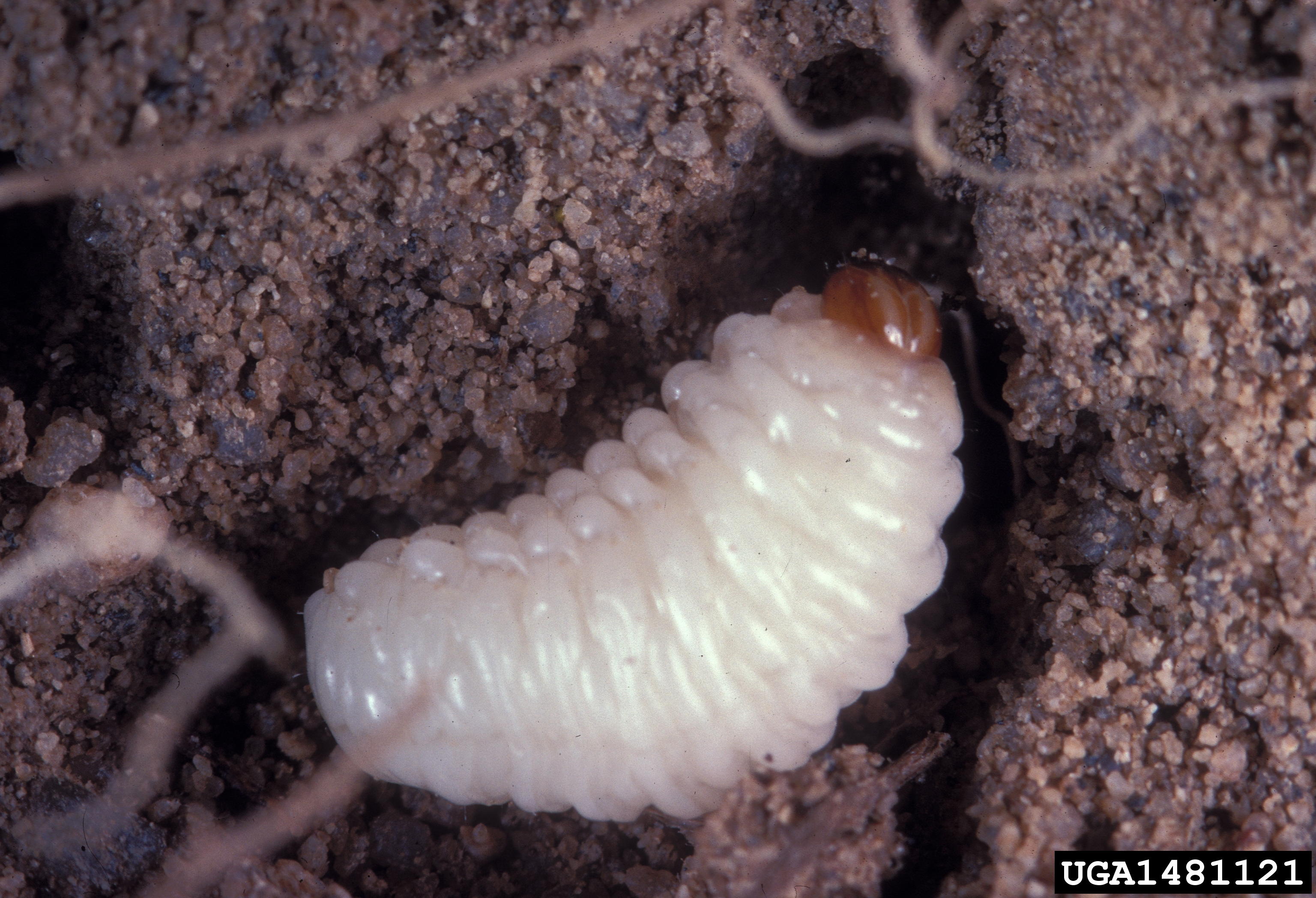 Baris strenua larva, Colorado, USA